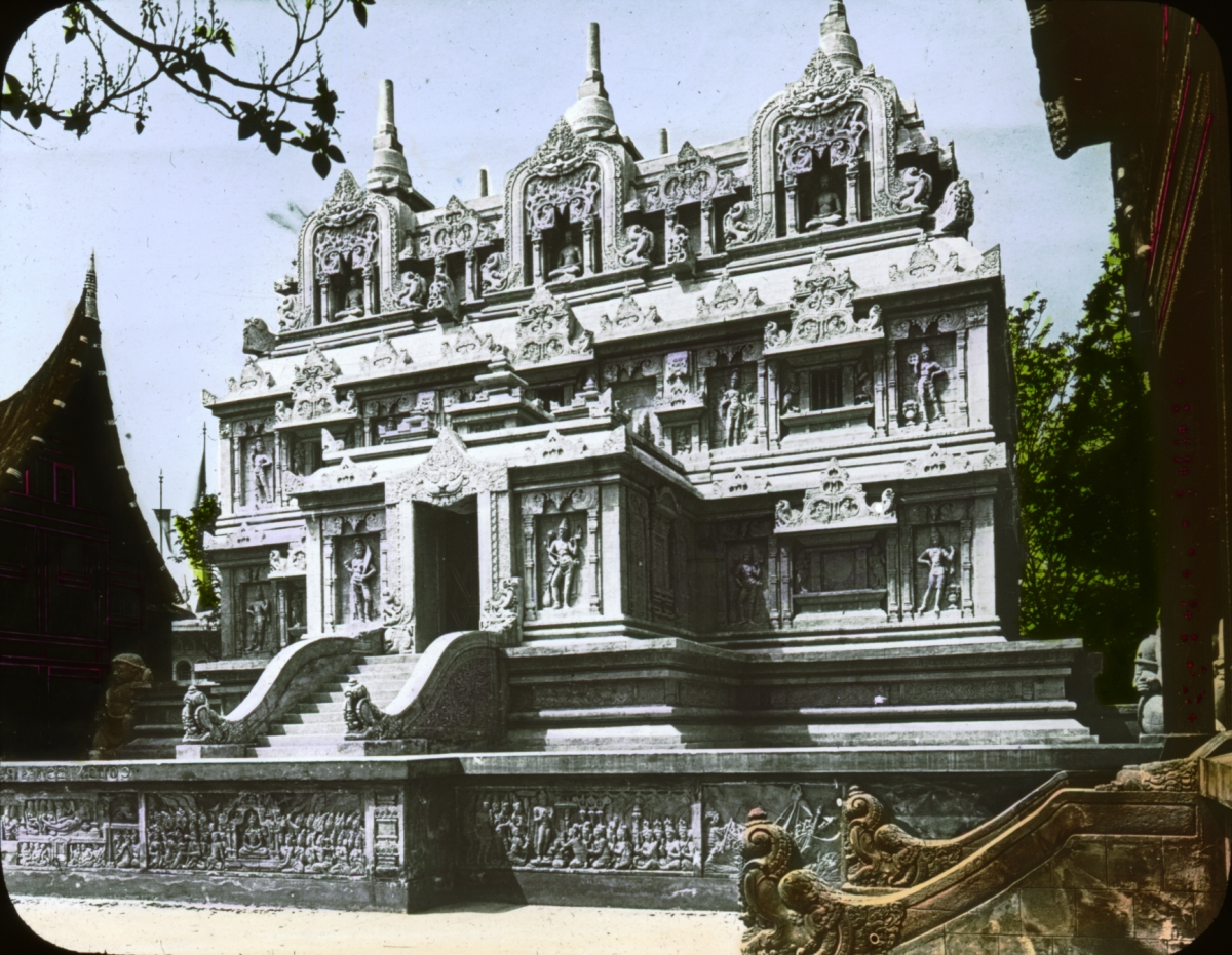 Original description: Paris Exposition: Dutch East Indies Pavilion, Paris, France, 1900. Pavilion of the Dutch East Indies. - Exhibiting the replica of Candi Sari (8th-century Central Java, Prambanan Plain, Indonesia) Brooklyn Museum Archives.